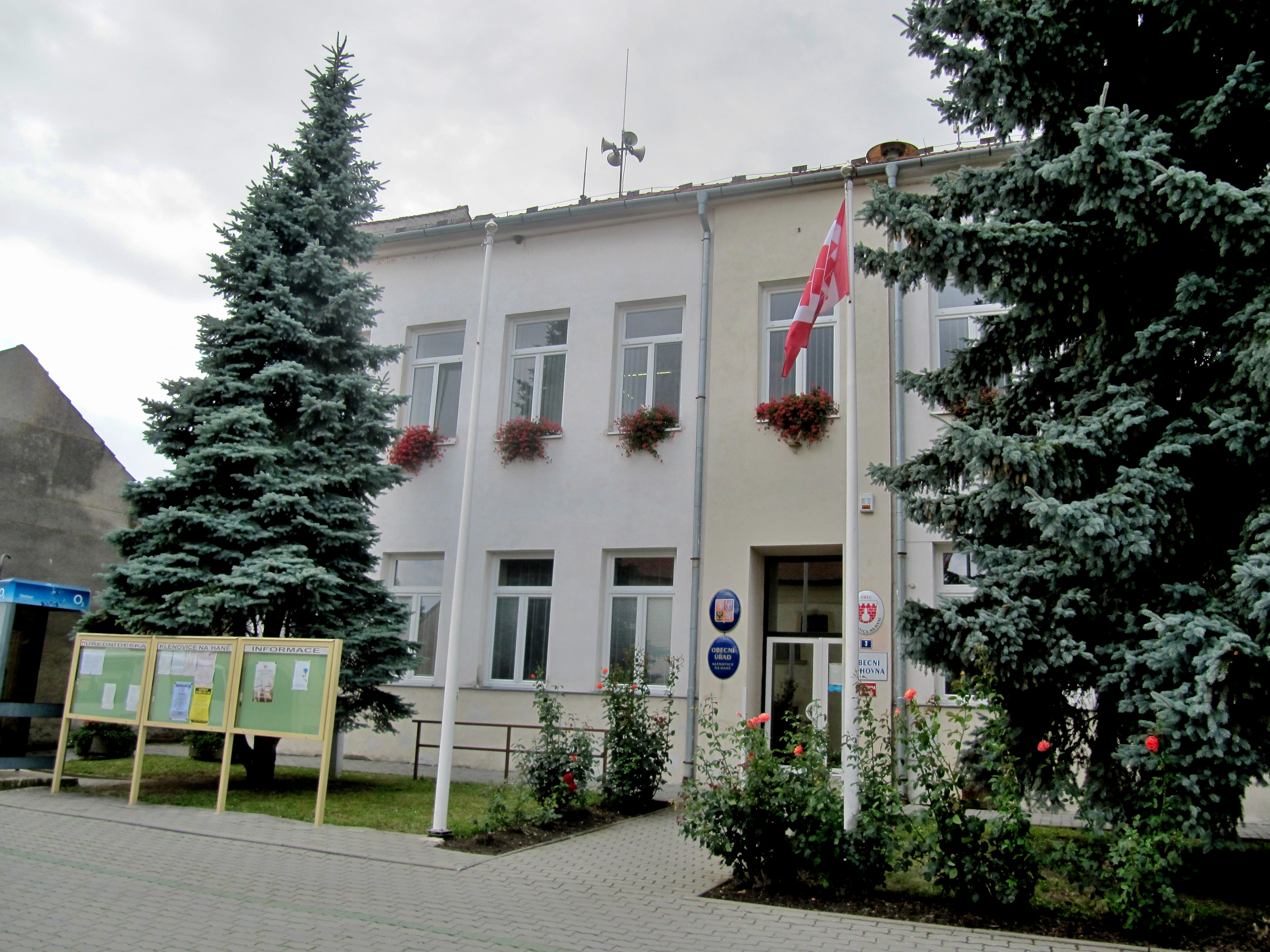 Klenovice na Hané, Prostějov District, Czech Republic.